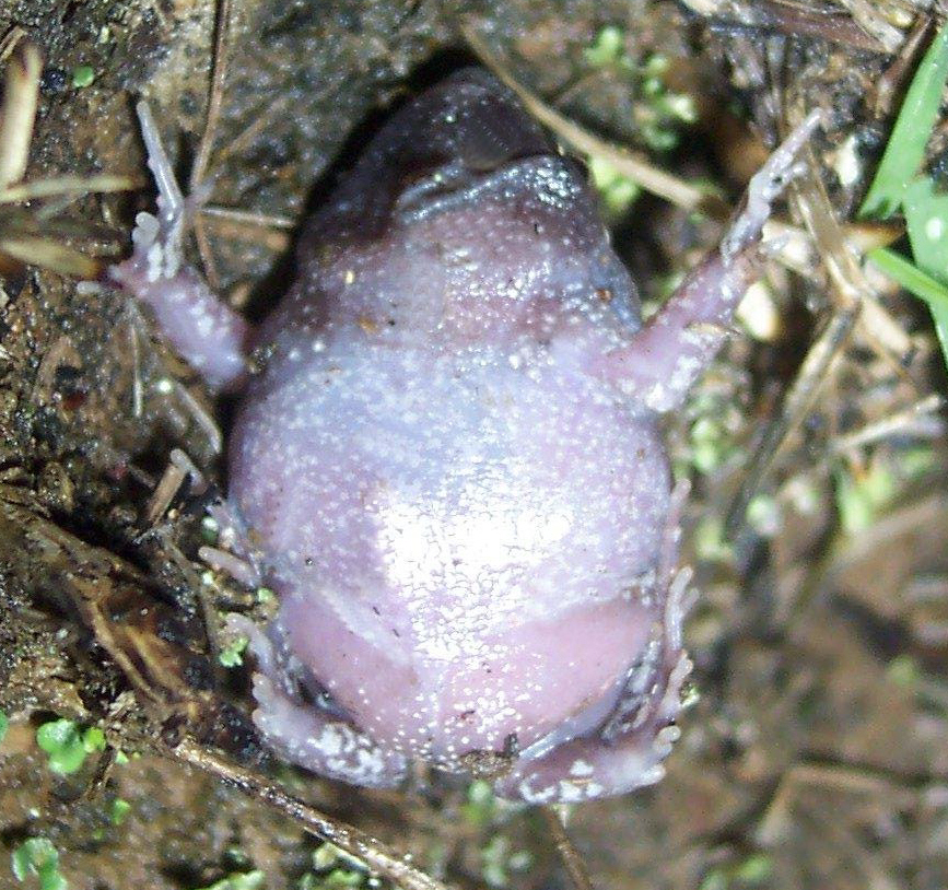 A male Smooth Toadelt, (Uperoleia laevigata) ventral surface, showing black throat and white belly.